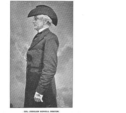 Colonel Zebulon H. Benton Counselor to Napoleon III, Father of Prince Louis Joseph Bonaparte Benton.